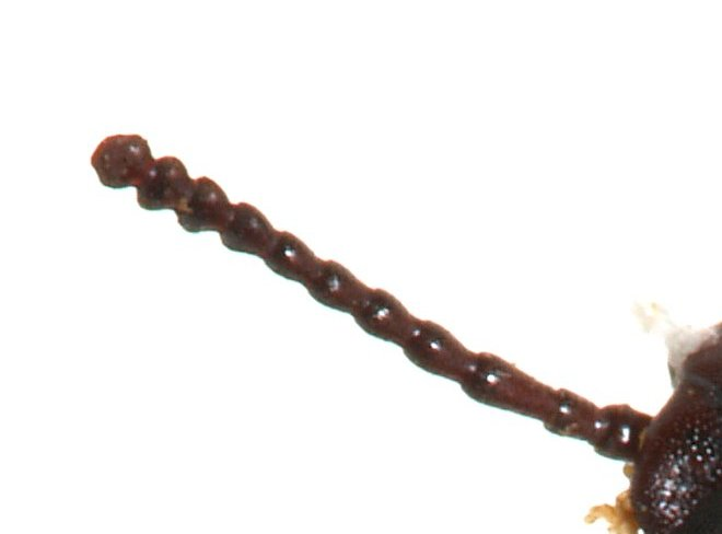 Antennae morphology: moniliform (Coleoptera: Tenebrionidae)